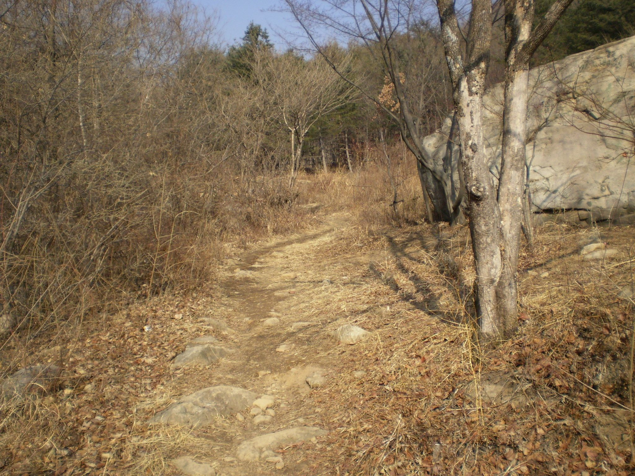 Portion of the Yeongnam Great Road in the lower reaches of Mungyeong Saejae.